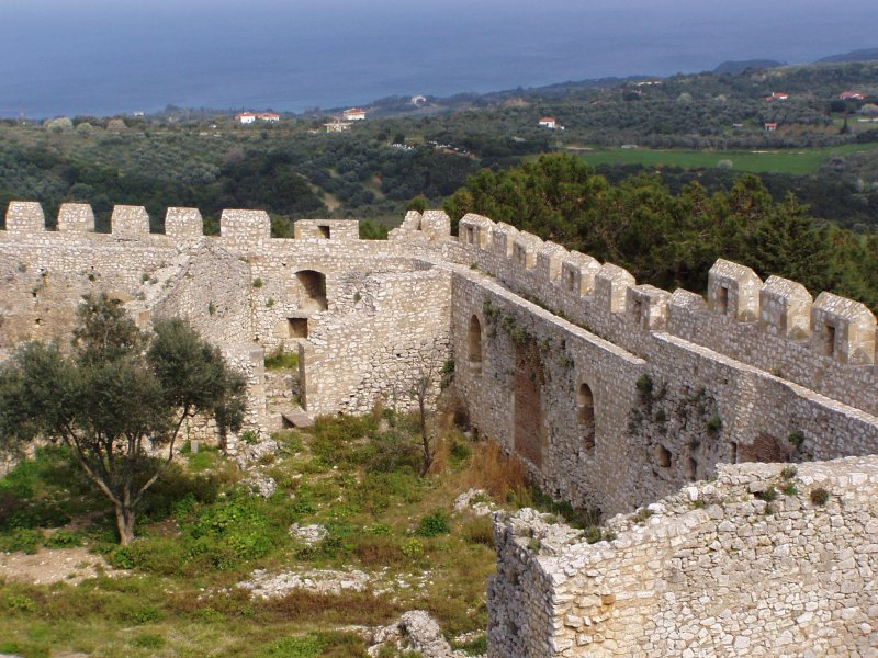 The walls of Chlemoutsi Castle, built by Geoffrey Villehardouin in 1223 AD, overlooks the port of Kylini, from where ferries run to Zakynthos and Kefalonia.